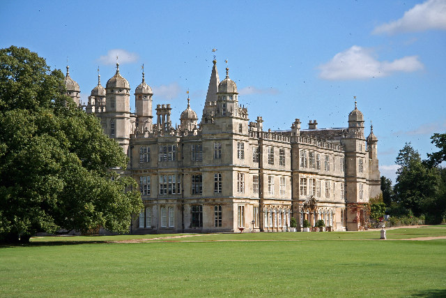 Burghley House. Burghley, near Stamford, is promoted as being "one of the largest and grandest houses of the first Elizabethan Age", and is privately owned by the Burghley House Preservation Trust. This view of the southern and western aspects of the house was taken from the end of the ha-ha ditch adjacent to the lake.